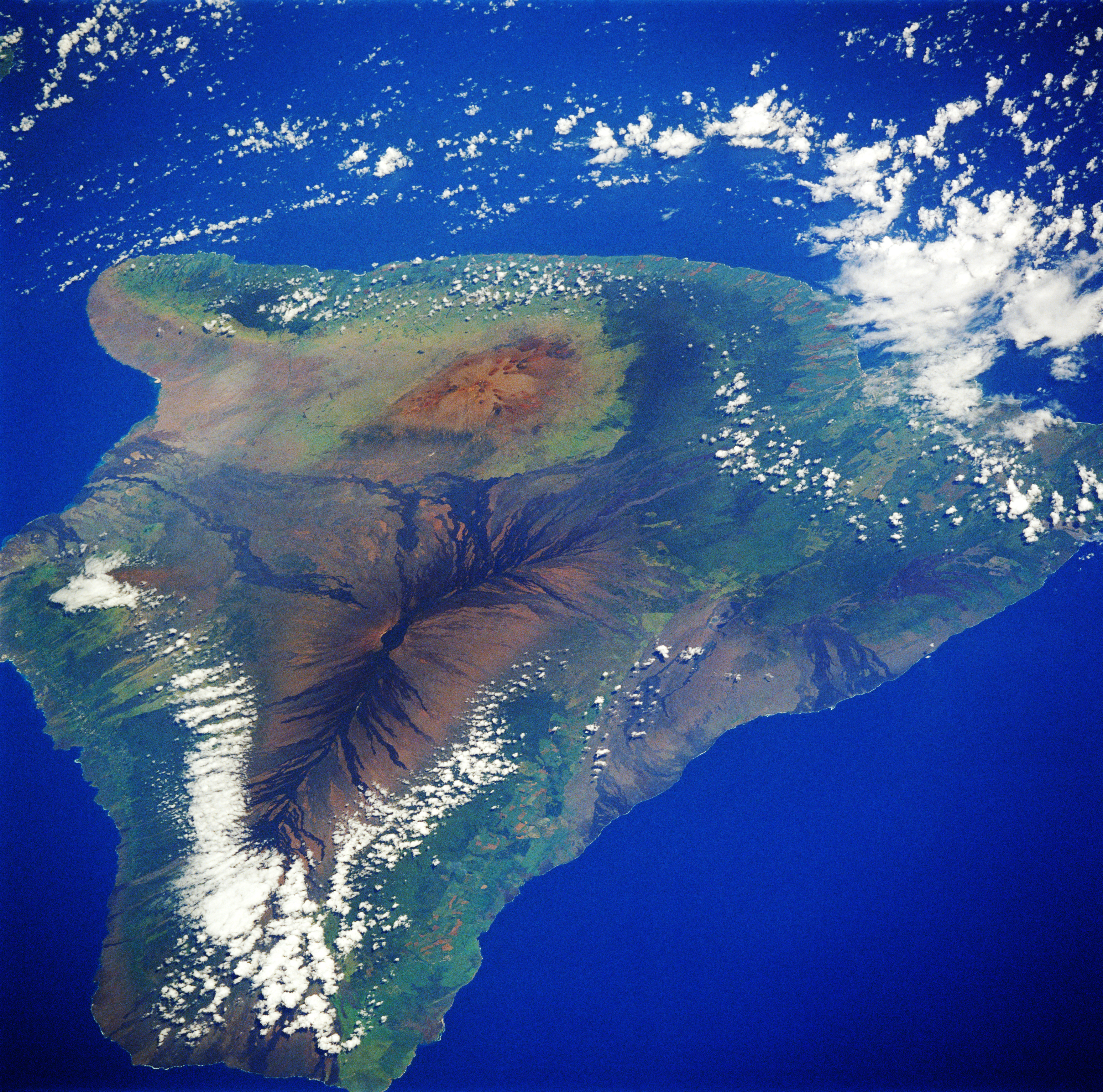 Satellite picture of the island of Hawai'i Hawaii, the archipelago’s youngest and largest island, is featured in this low-oblique, north-looking photograph. Apparent are the three main volcanoes that have created the big island—Mauna Loa [13 679 feet (4169 meters)], the easiest to recognize with its rift zone and dark, riblike basalt lava flows that radiate outward from the higher elevations; brownish-looking Mauna Kea, slightly taller at 13 796 feet (4205 meters), but lacking the dramatic appearance of Mauna Loa; and Kilauea near the south-eastern coast. The multiple craters of Kilauea [4078 feet (1243 meters)] are not easily discernible in this photograph. Kilauea and Mauna Loa continue to be two of the world’s most active shield volcanoes as they periodically add new acreage to the big island.